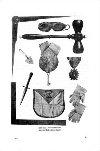 Freemasonic paraphernalia